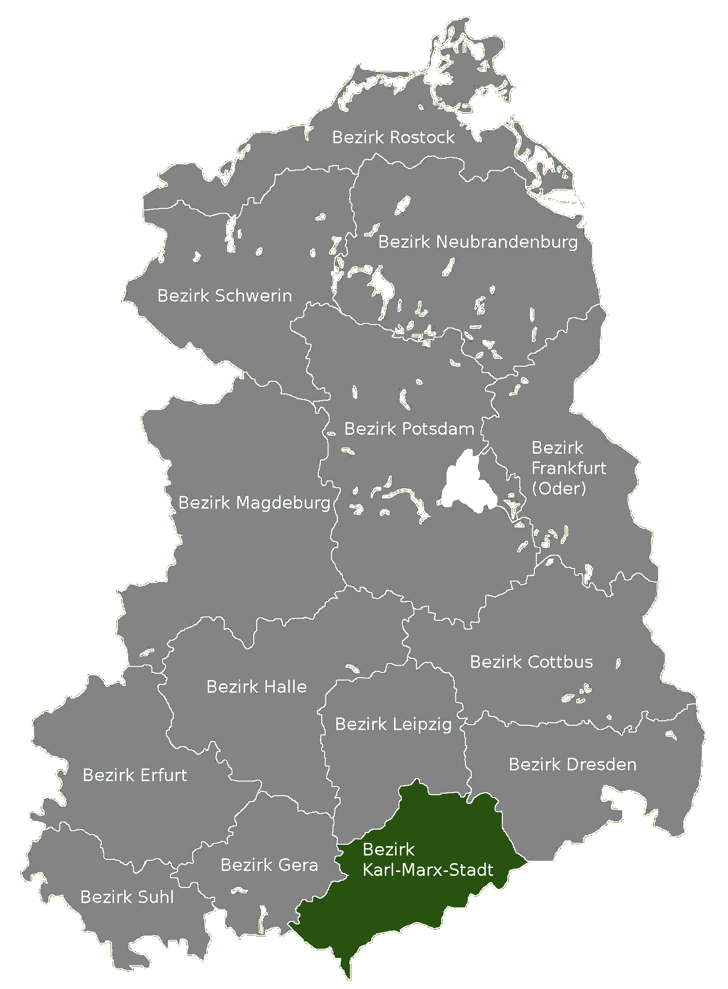 Map based on German Wikipedia